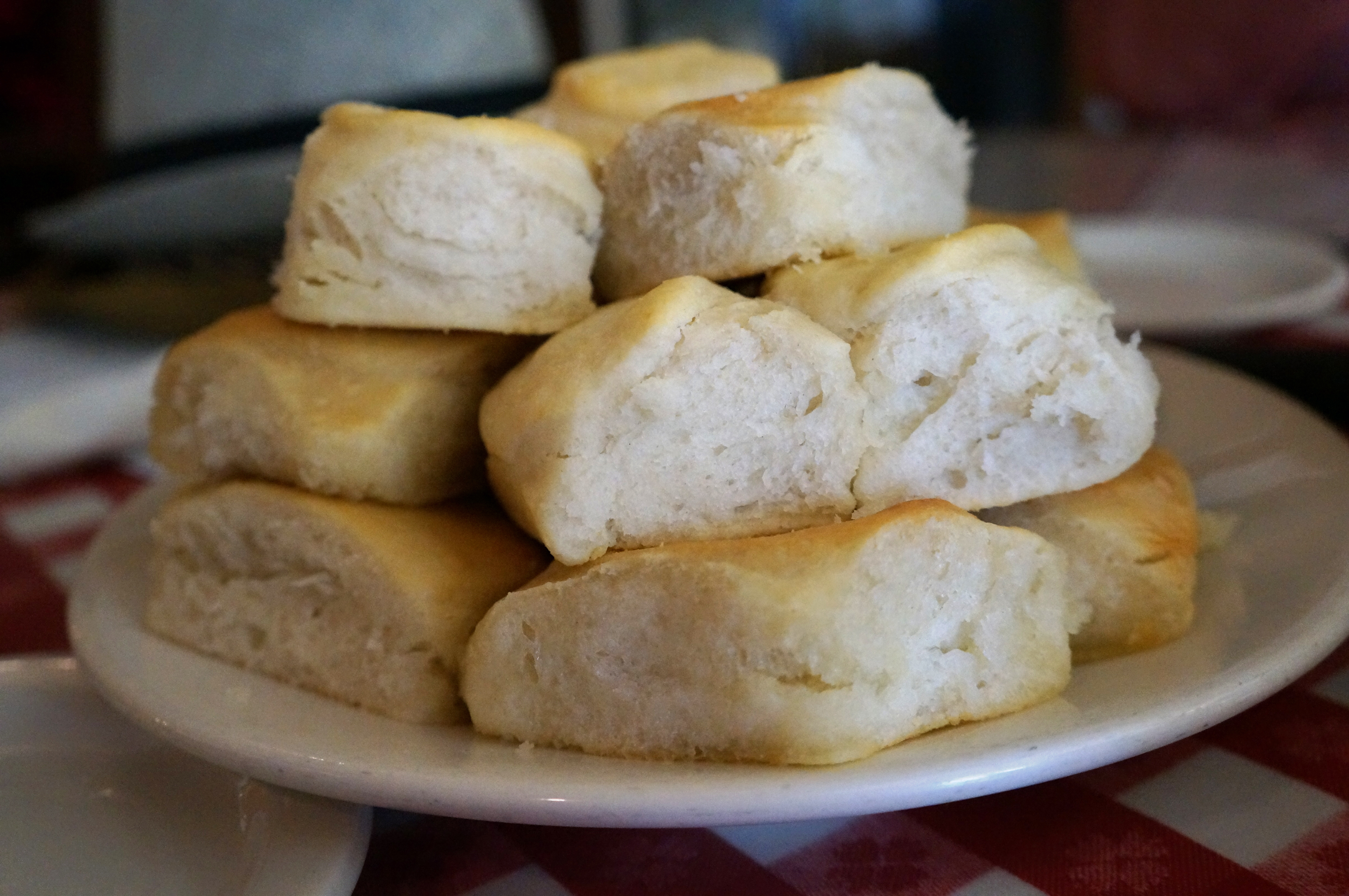 Biscuits at Lovelace Cafe in Nashville, Tennessee